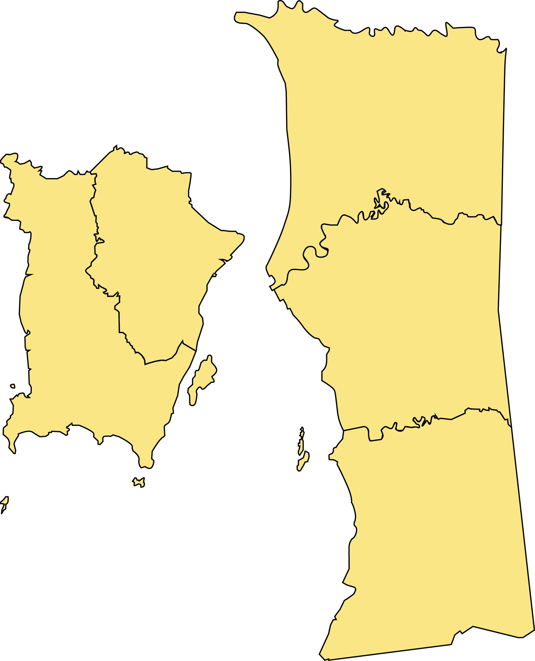 The five districts of Penang, Malaysia.